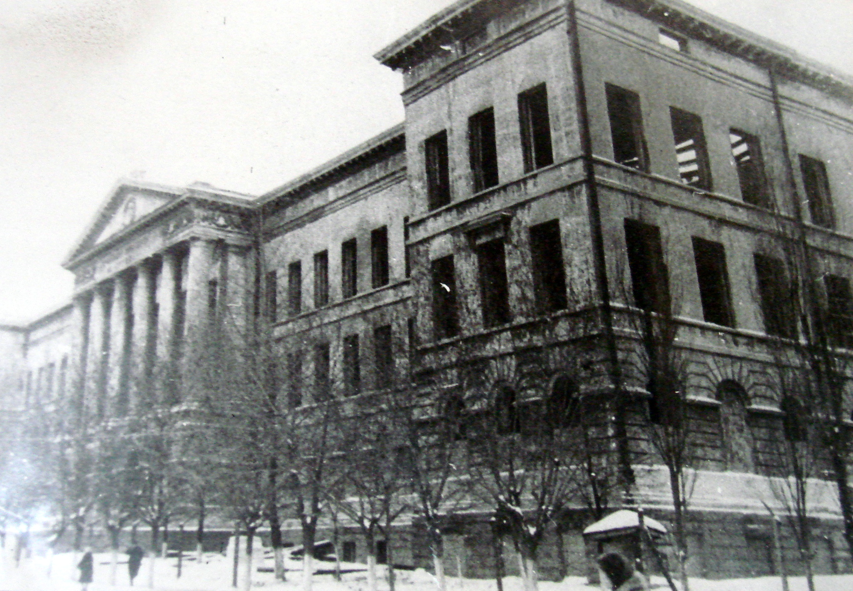 The burnt-out remains of Dnipropetrovsk's National Mining University. The building was badly damaged by German forces during the Second World War.